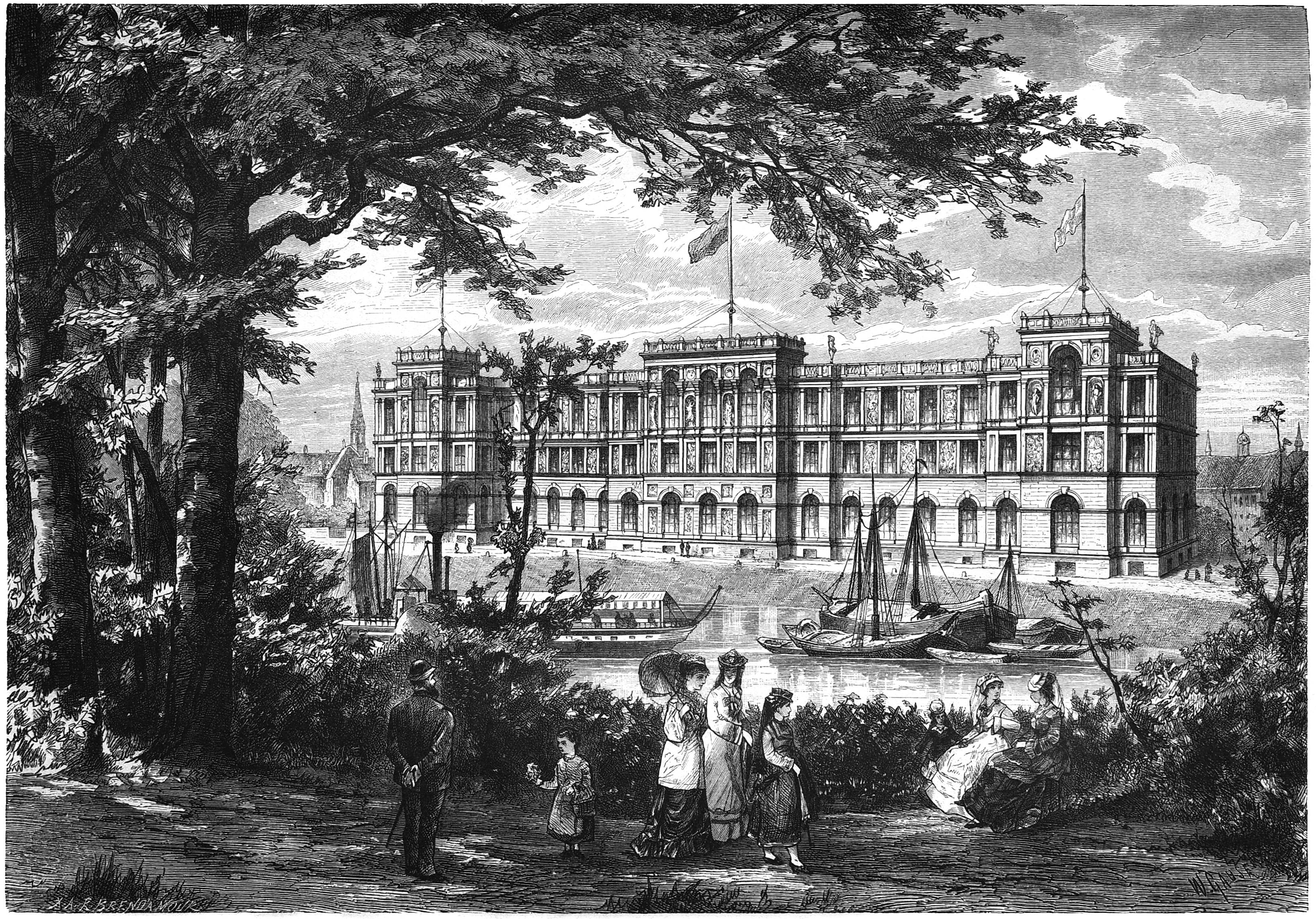 caption: "Die neue Kunstakademie in Düsseldorf. Nach der Natur aufgenommen von W. Gause."